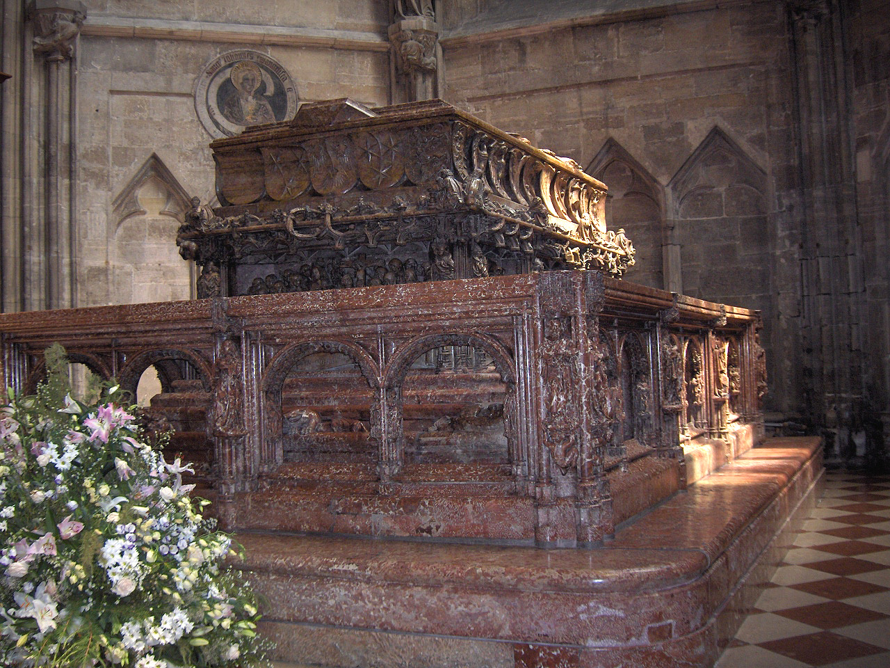 Tomb of emperor Frederick IIII in the Stephansdom in Vienna, Austria